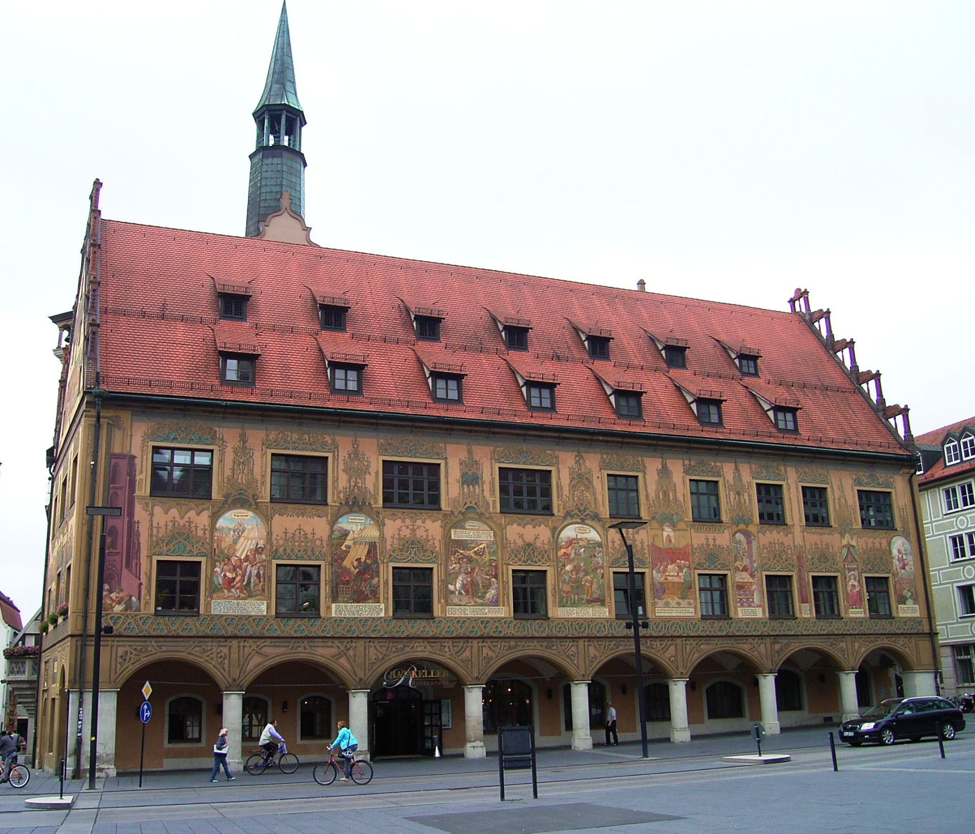 Town hall of Ulm